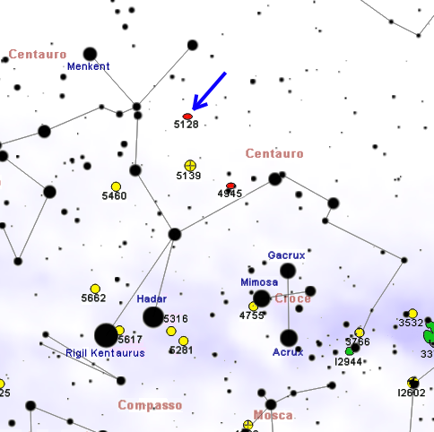 NGC 5128